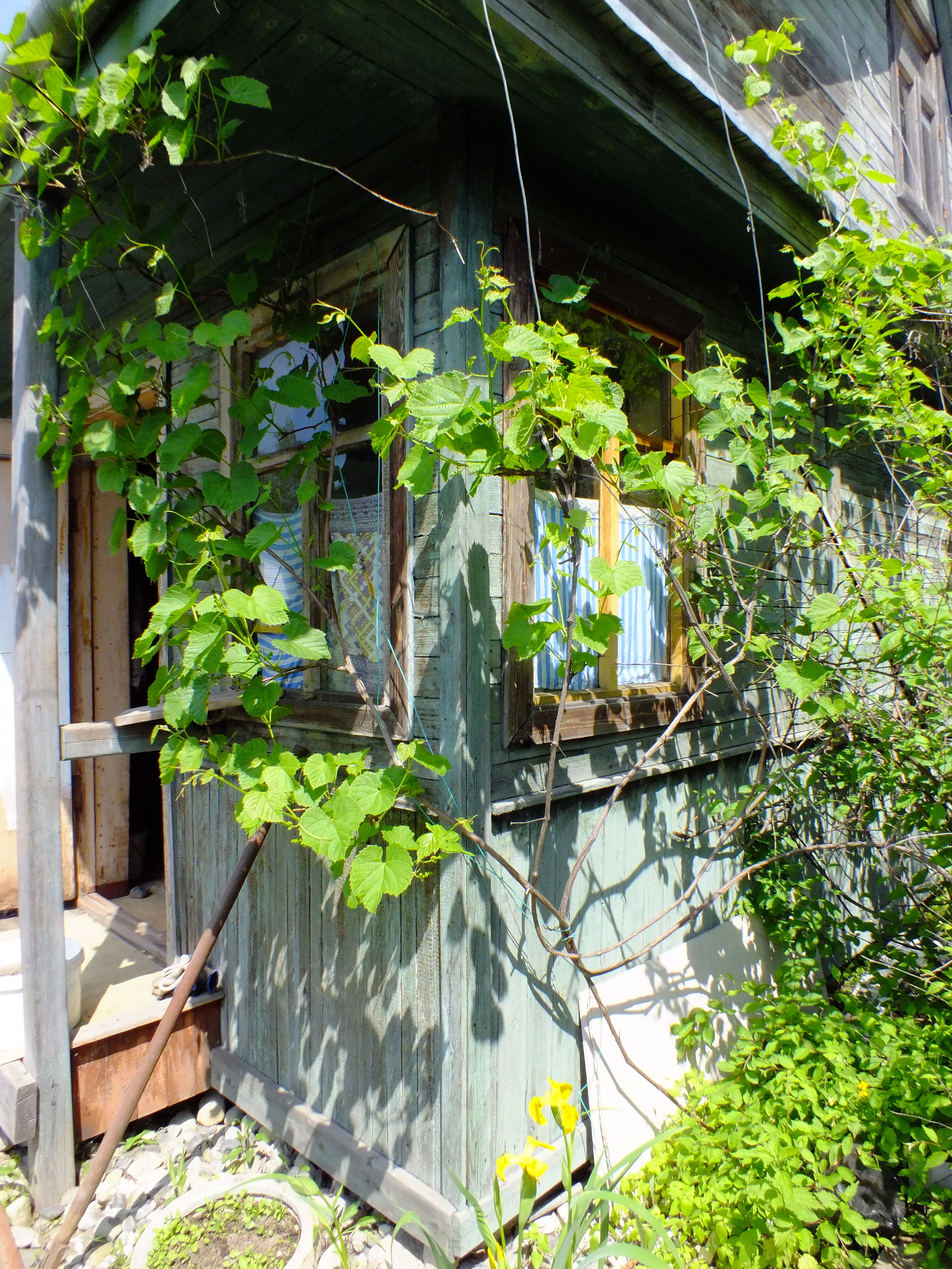 Vitis amurensis